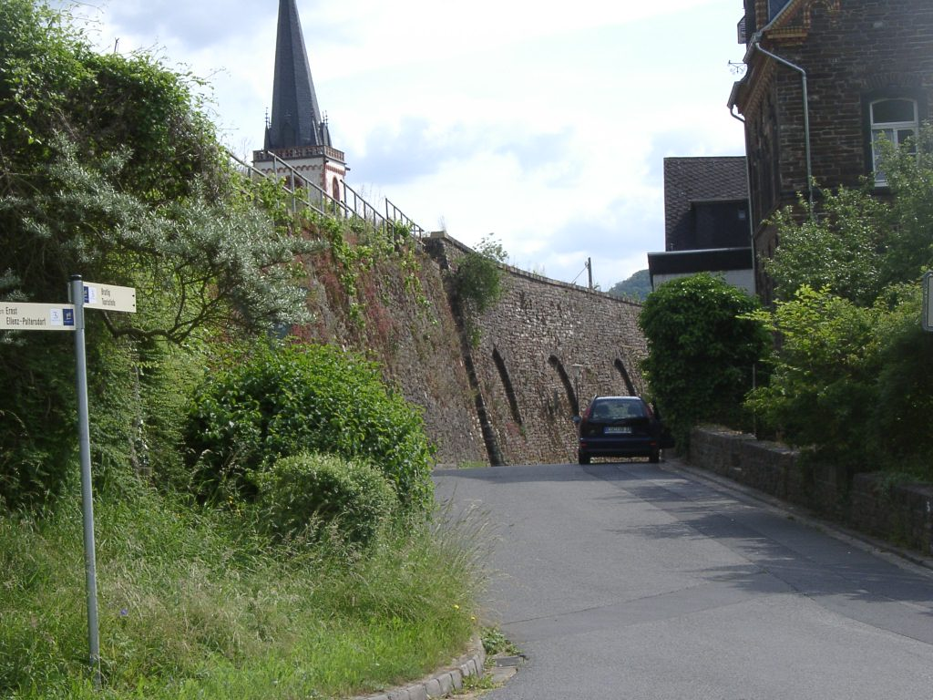 Railway dam in Bruttig on the Mosel river. Remnant of a planned and partially built, but never completed strategic railway.